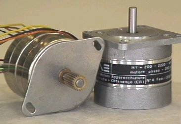 Stepper motor